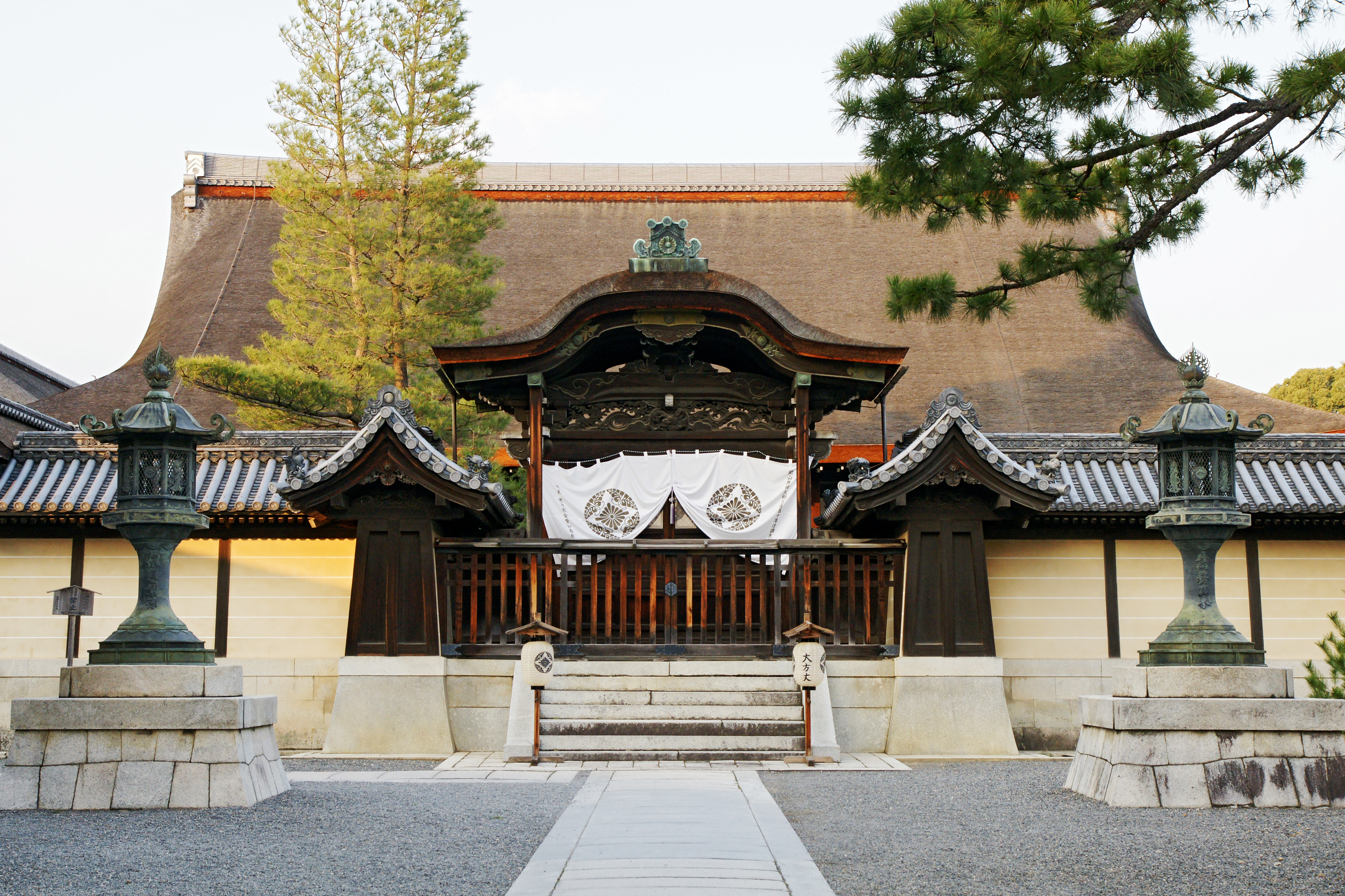 Myōshin-ji in Kyoto, Kyoto prefecture, Japan